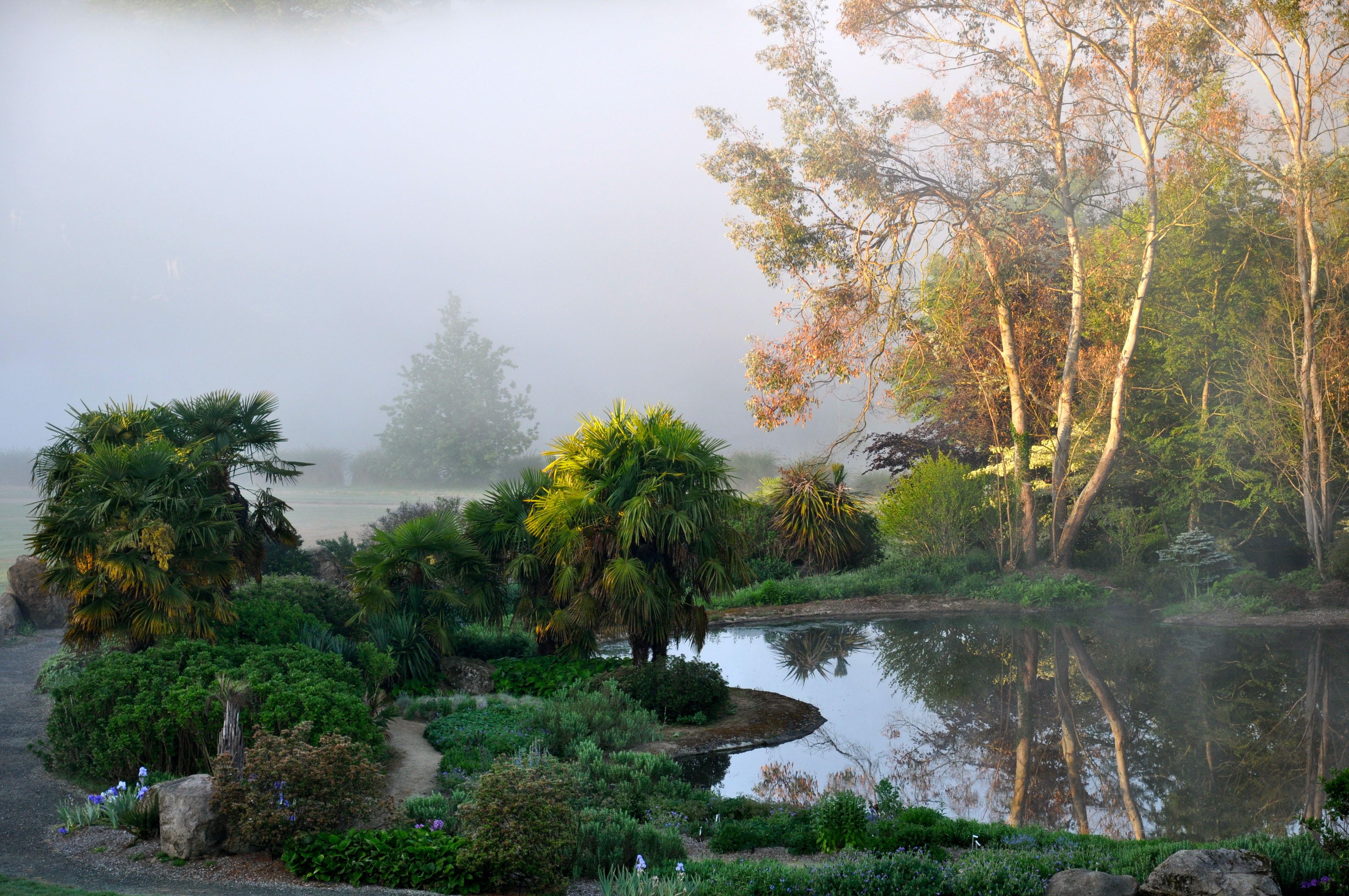 The garden of the blue spring in the center of the Jardin botanique de Haute-Bretagne